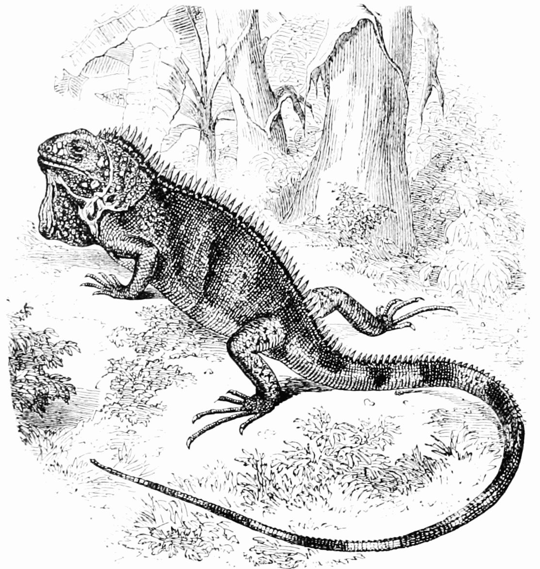 Iguana